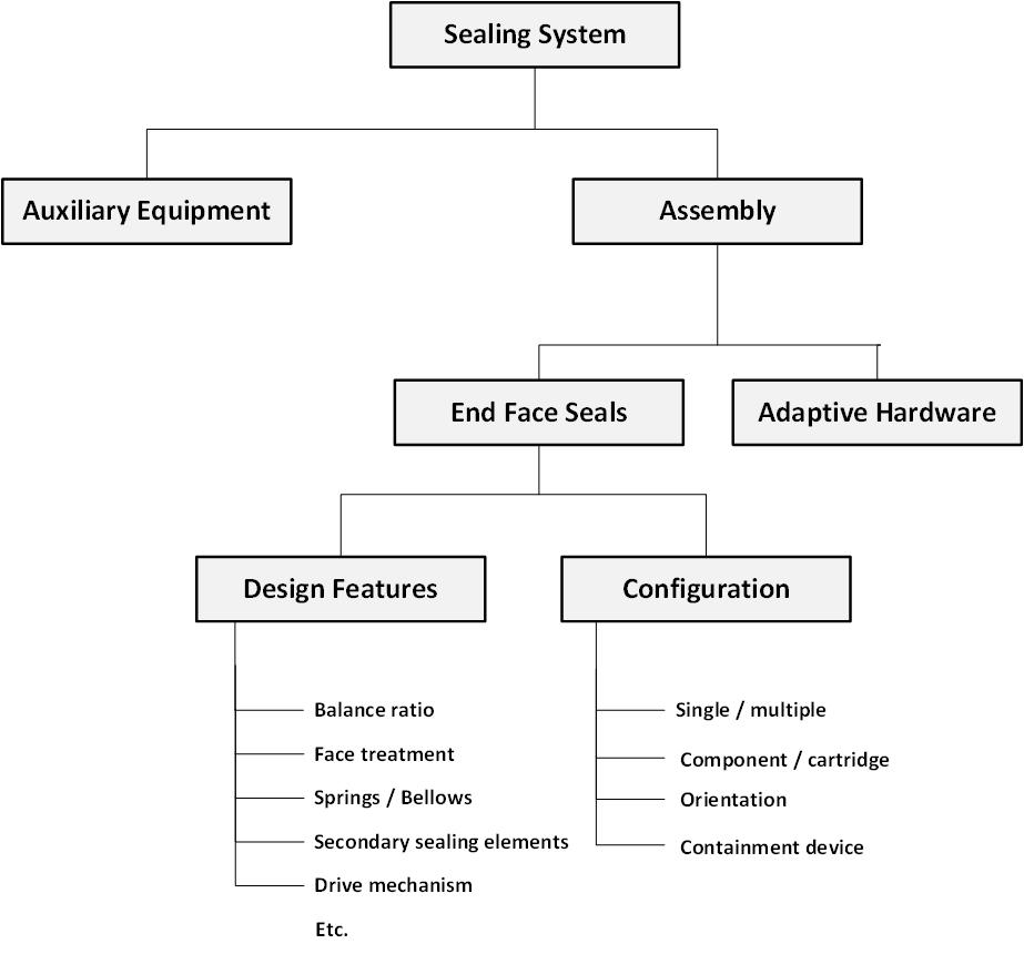 Mechanical End Face Seals may be classified by Design Features and by Configuration as part of a Sealing System.